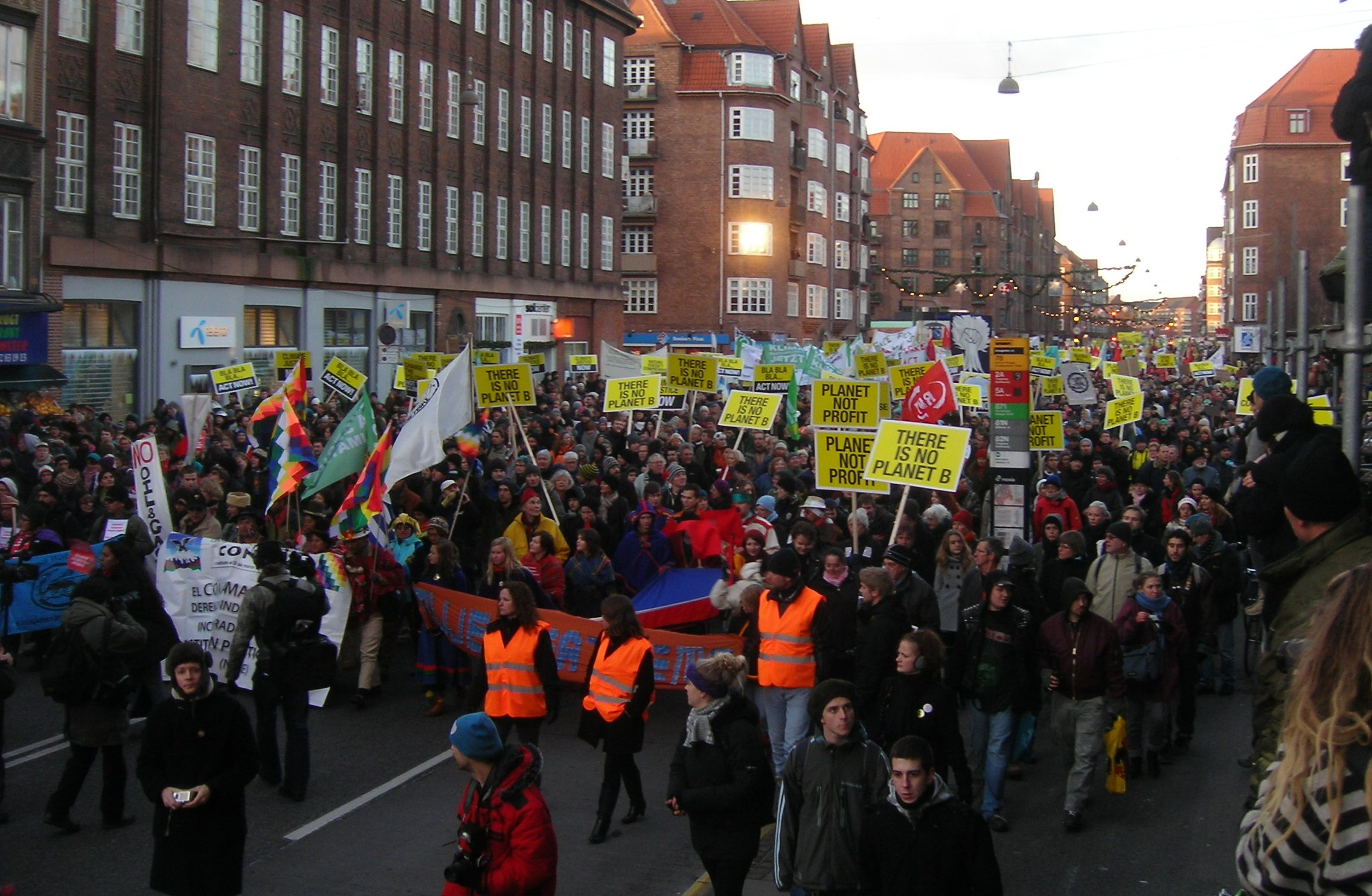 COP15 demonstration 12 december moving towards the Bella Centre